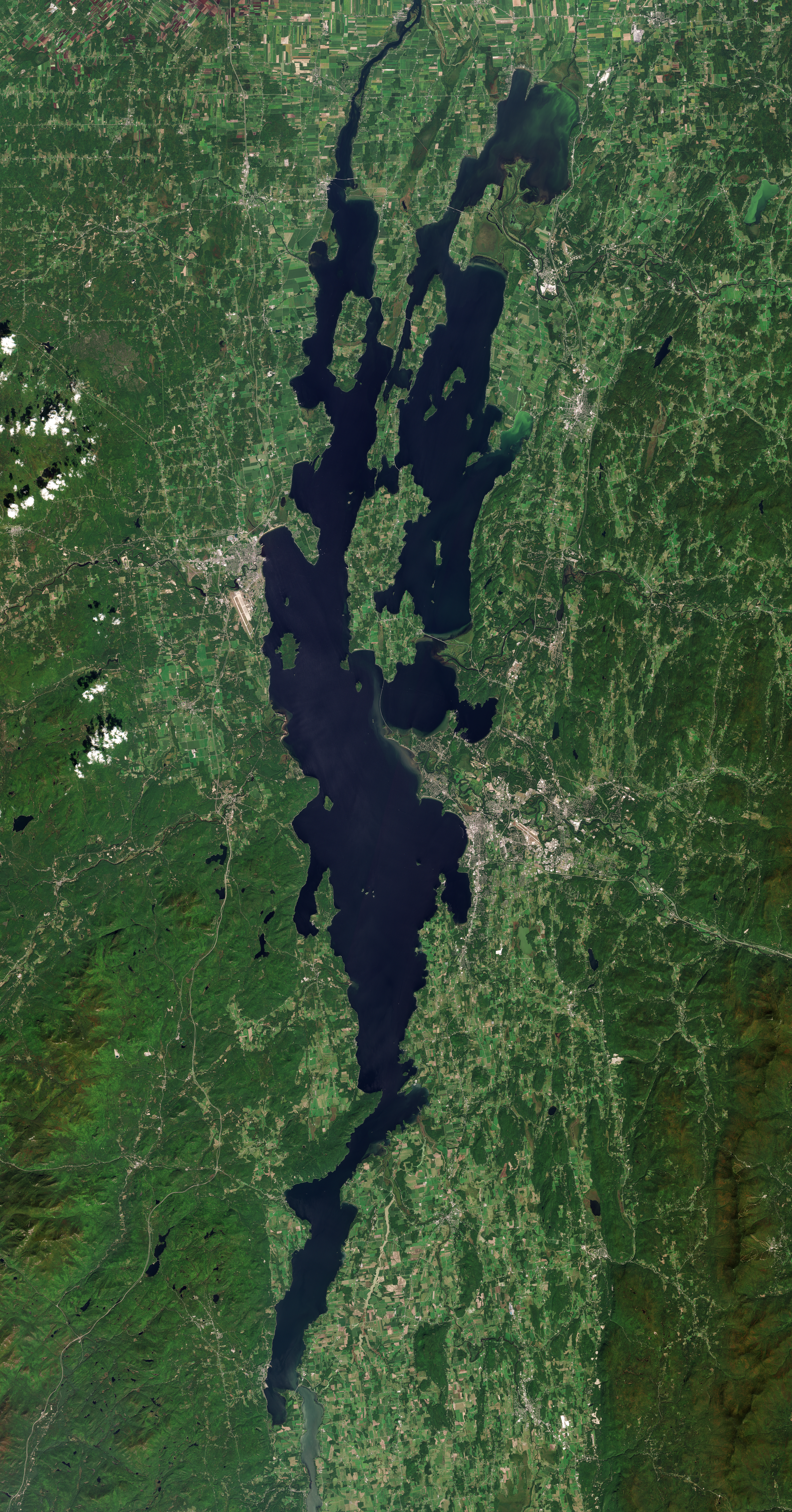 Date: 2017-09-13 Sensor: MSI on Sentinel-2A Resolution: 20m (Downsampled) RGB Composites: True color, Band 4-3-2